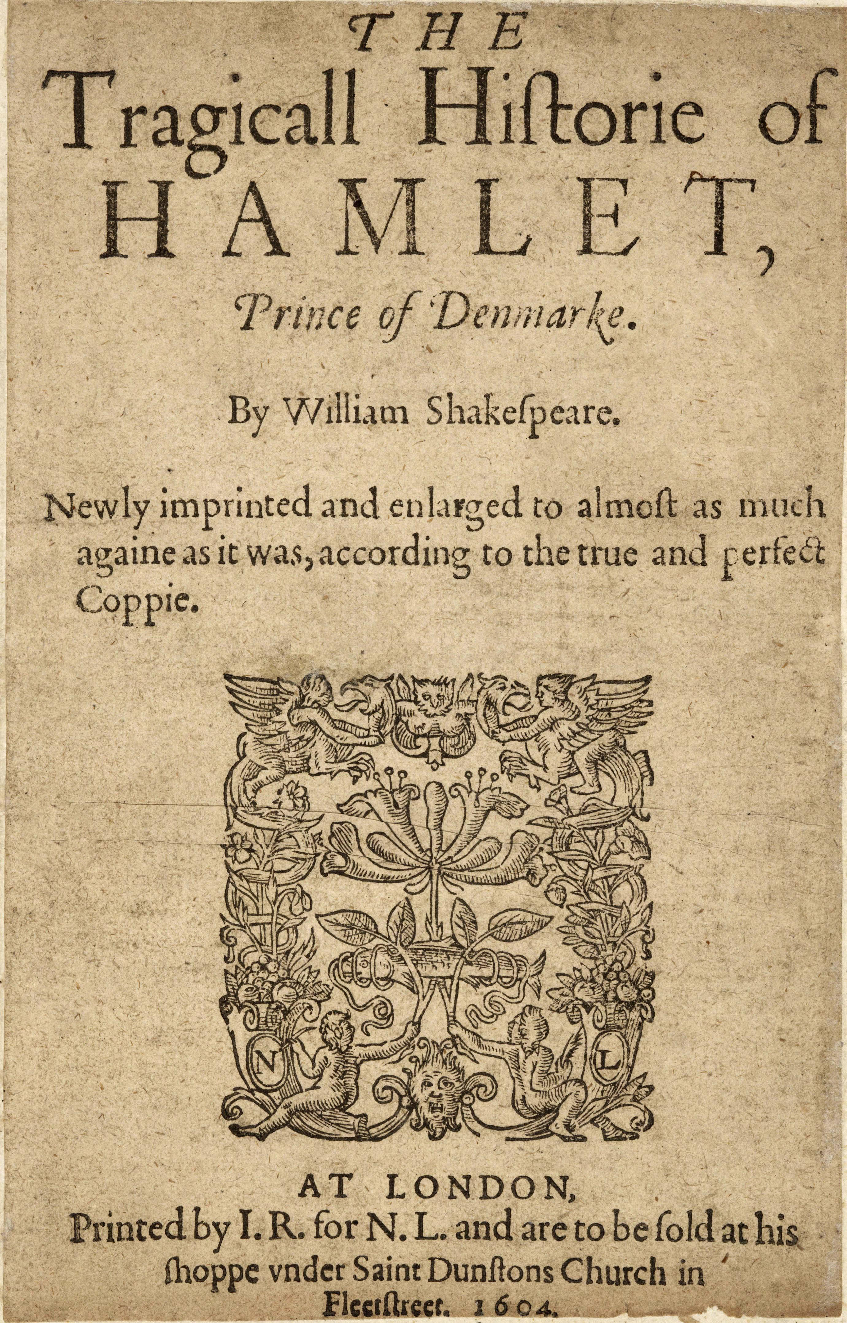 Title page of Hamlet 2nd quarto (1604)